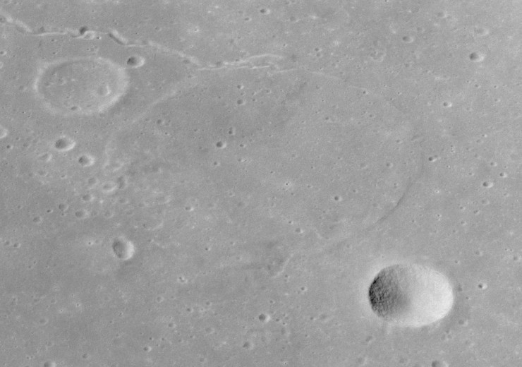 Oblique view of Jansen R crater ("pancake" at center) and Jansen D crater (lower right), north of Jansen crater, on the moon.